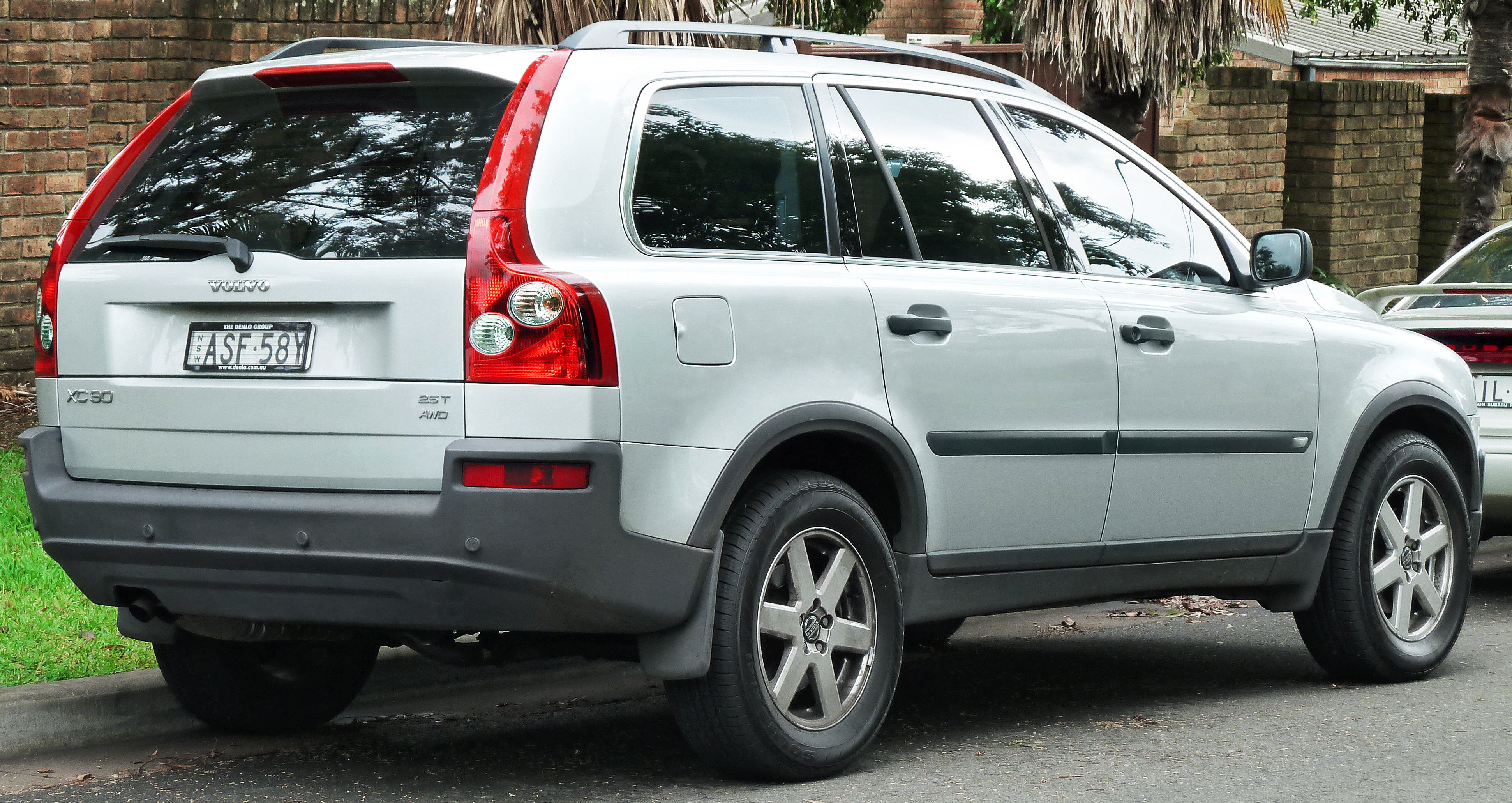 2003 Volvo XC90 (P28 MY04) 2.5 T wagon. Photographed in Gordon, New South Wales, Australia.